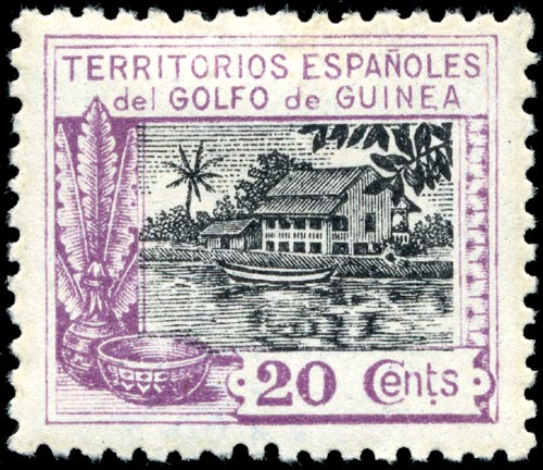 Scan of Spanish Guinea 20c stamp of 1924